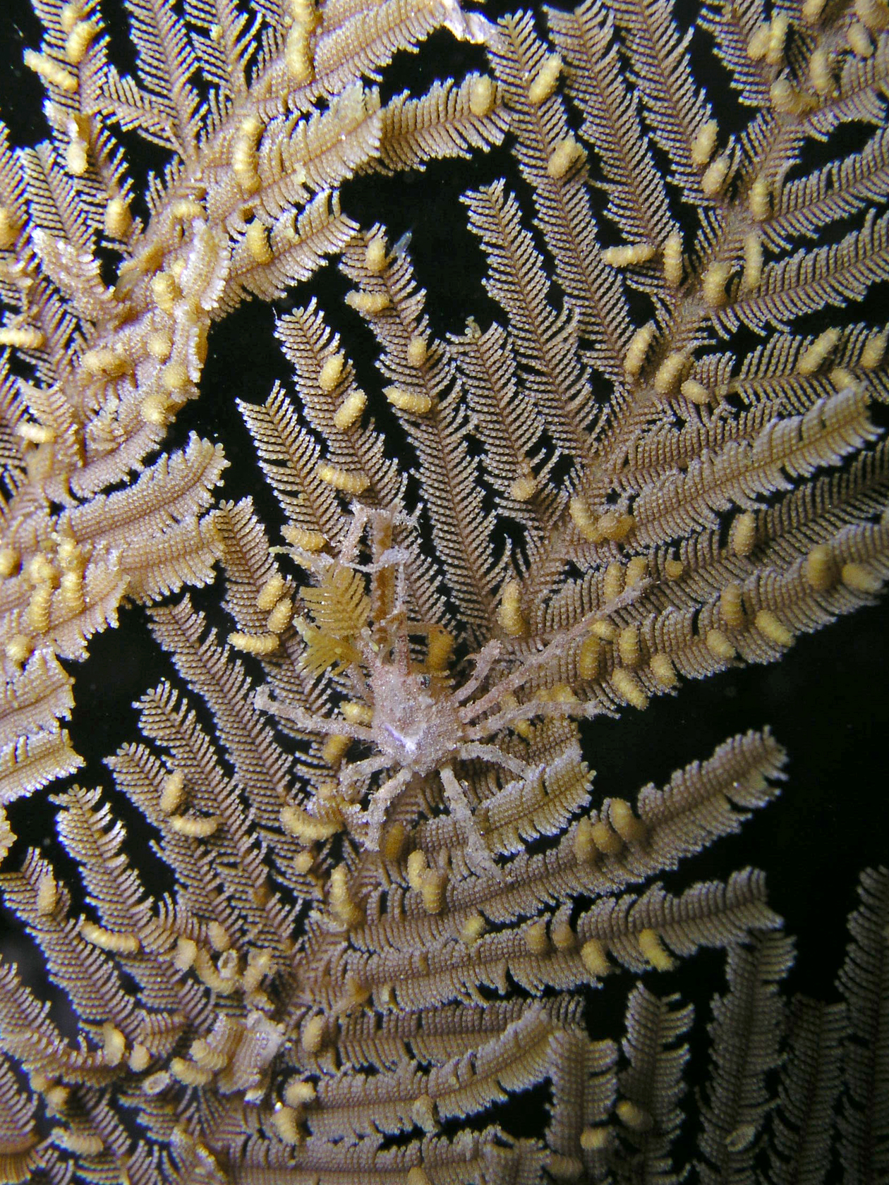 Hyastenus bispinosus (Arrow crab) on Aglaophenia cupressina (Stinging hydroid). Small decorator crabs, like this one, are often found wearing snipped off tips of stinging hydroids on their heads to fend off predators.